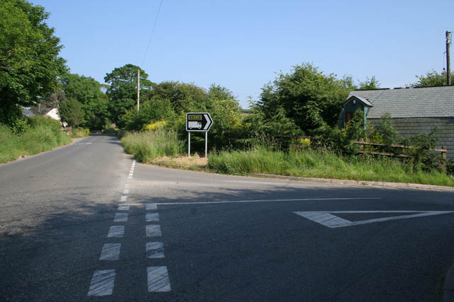 Gang This hamlet consists of a couple of farms and a few houses clustered round this road junction.